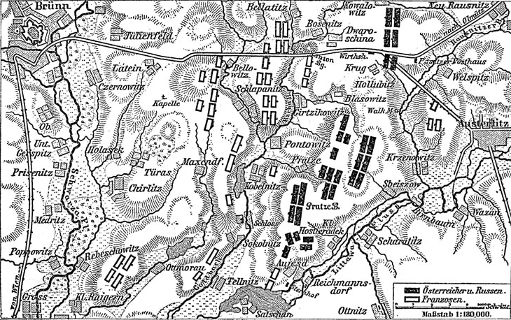 Austerlitz-Battlefield